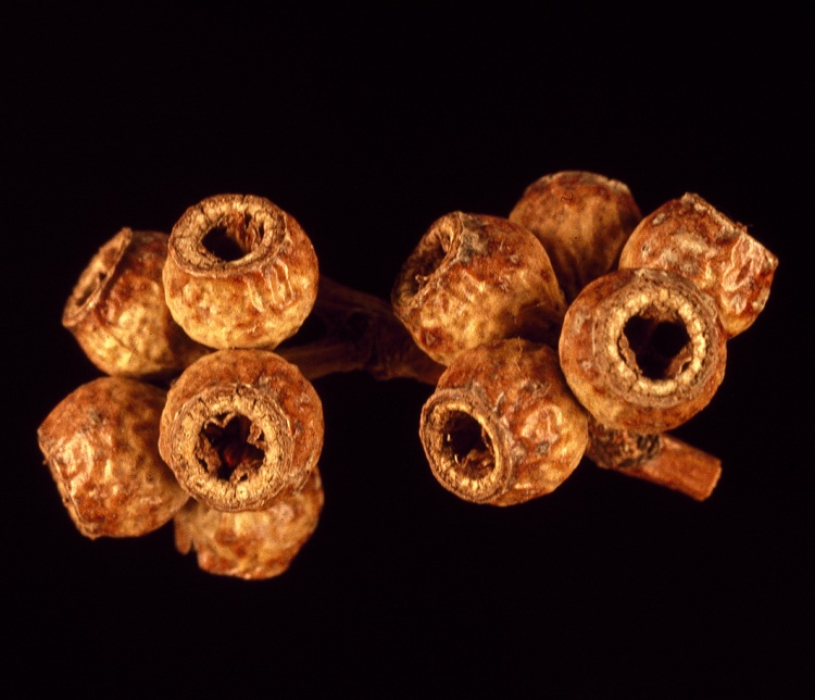 Fruit of Eucalyptus micranthera